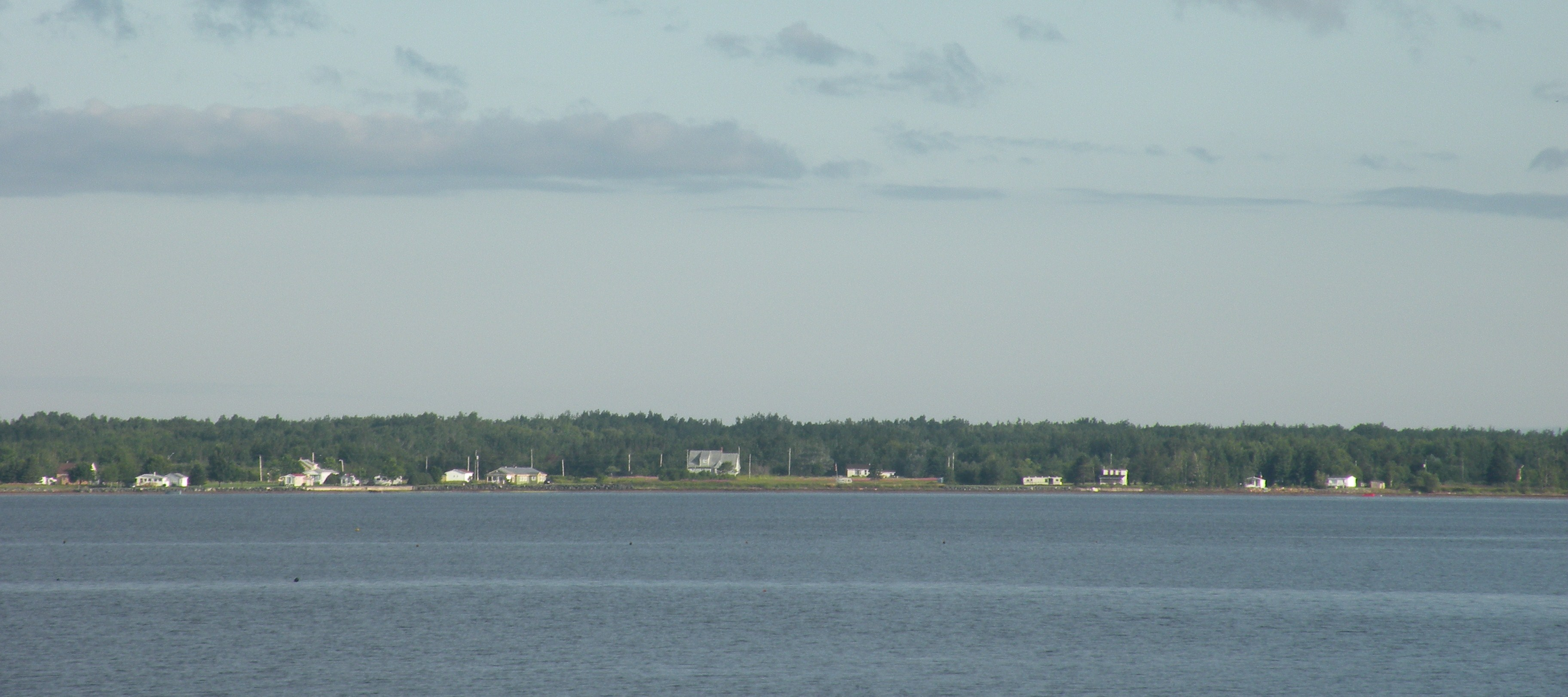 A view of Village-des-Poirier, New Brunswick.